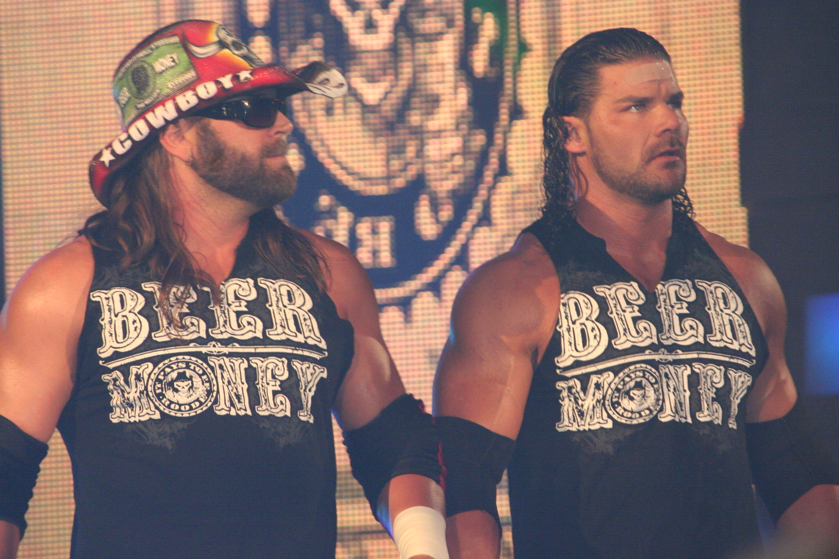 Professional wrestlers James Storm and Robert Roode at a TNA Impact! taping